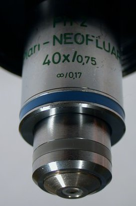 File:Zeiss Ph2.JPG by Trondarne rotated and cropped.